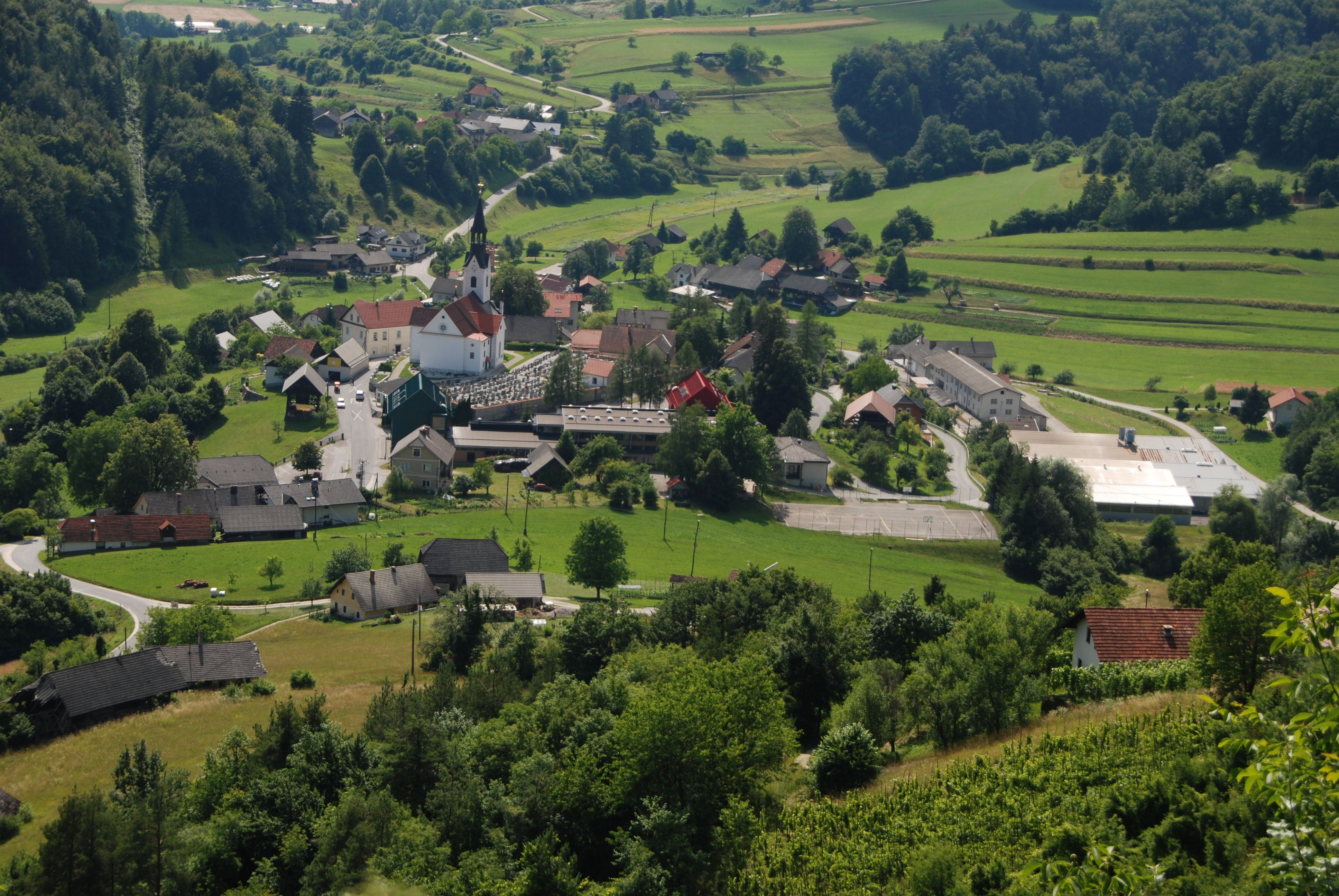 Gabrovka, a village in the Municipality of Litija, from Moravška Gora.